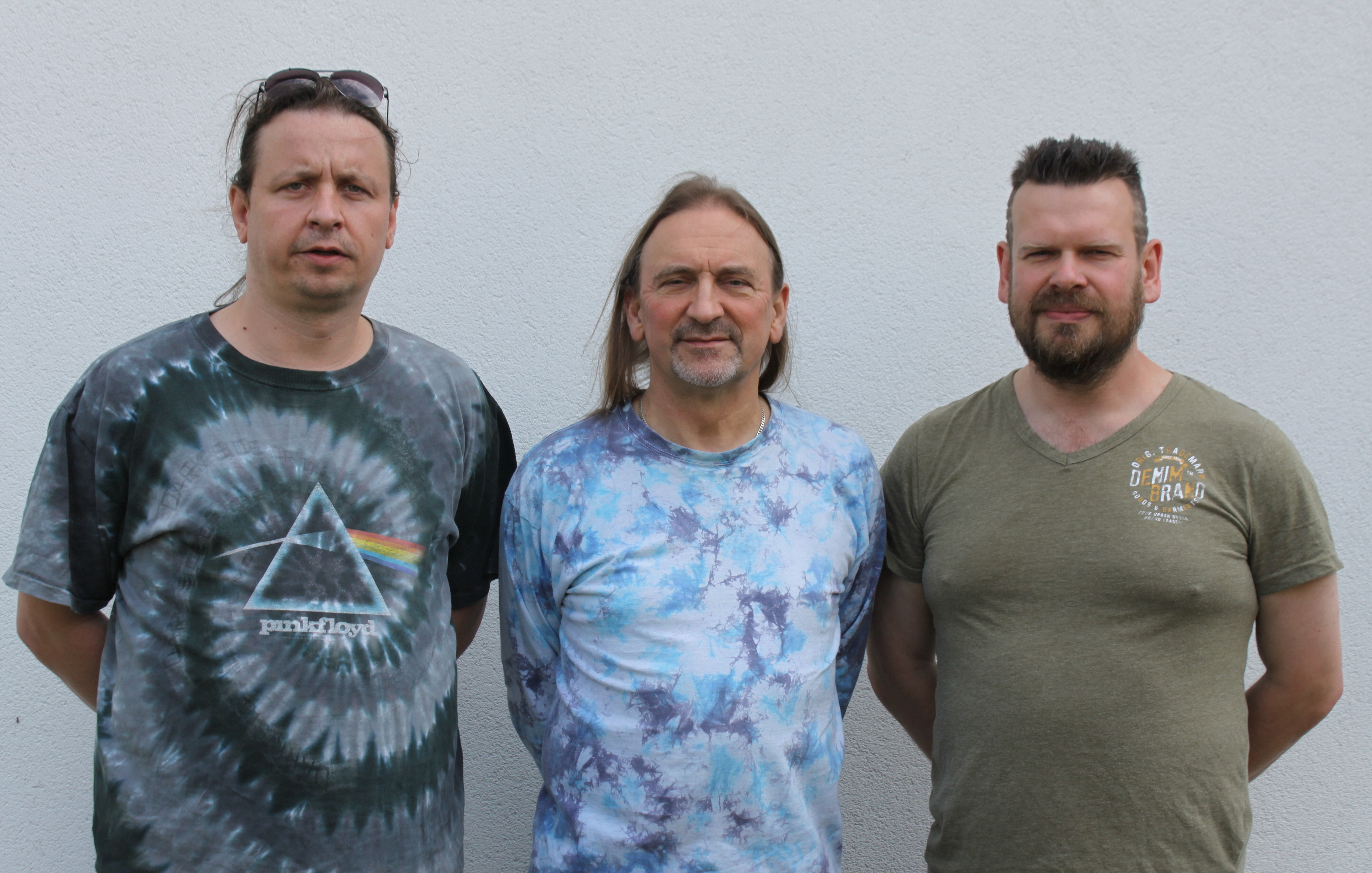 M Kielak & M Piekarczyk & J Pijarowski during "Proteiny" music session